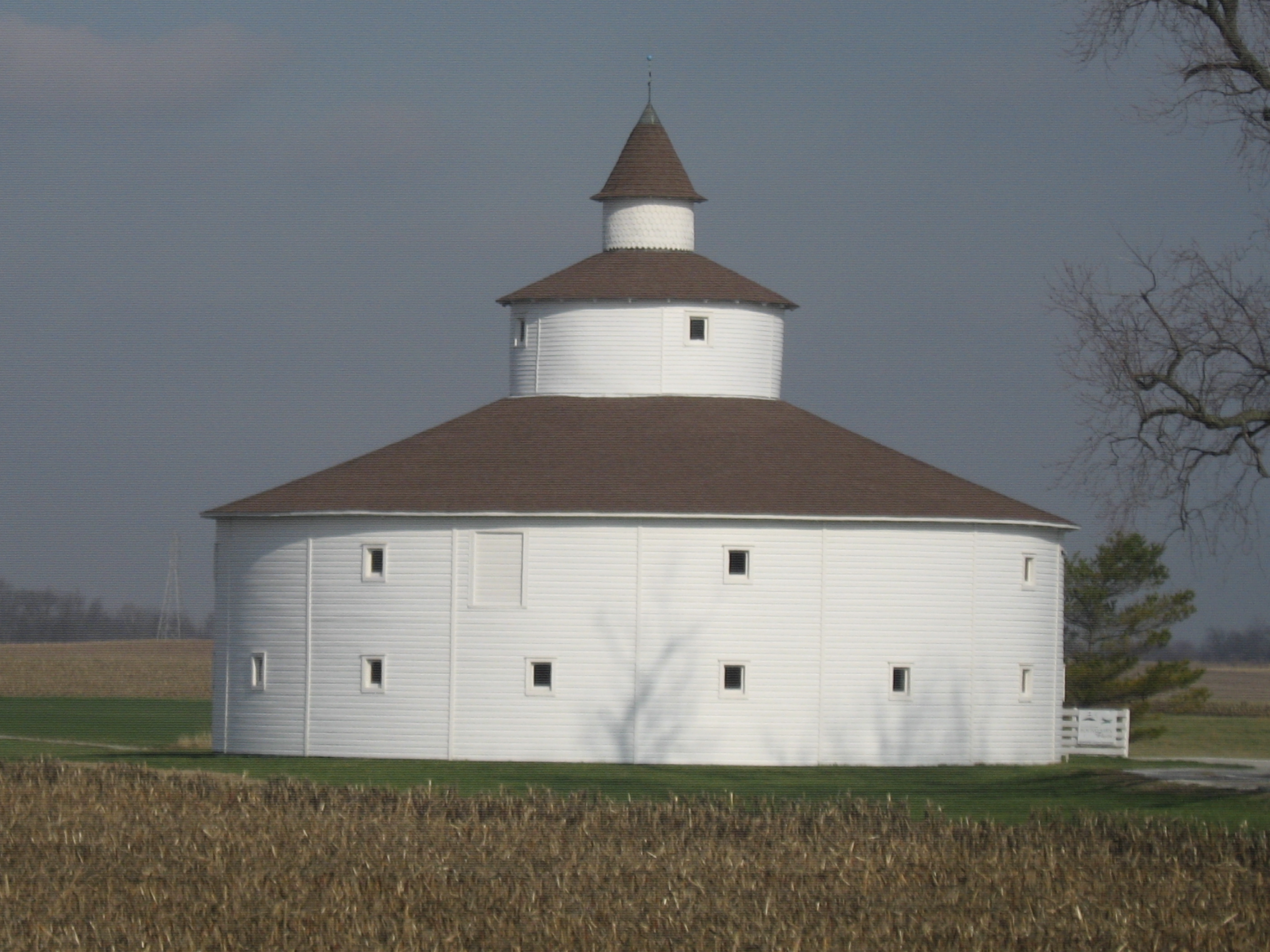 View from the south of the Strauther Pleak Round Barn, located along Moscow Road north of Greensburg in Washington Township, Decatur County, Indiana, United States. Built in 1914, it is listed on the National Register of Historic Places.